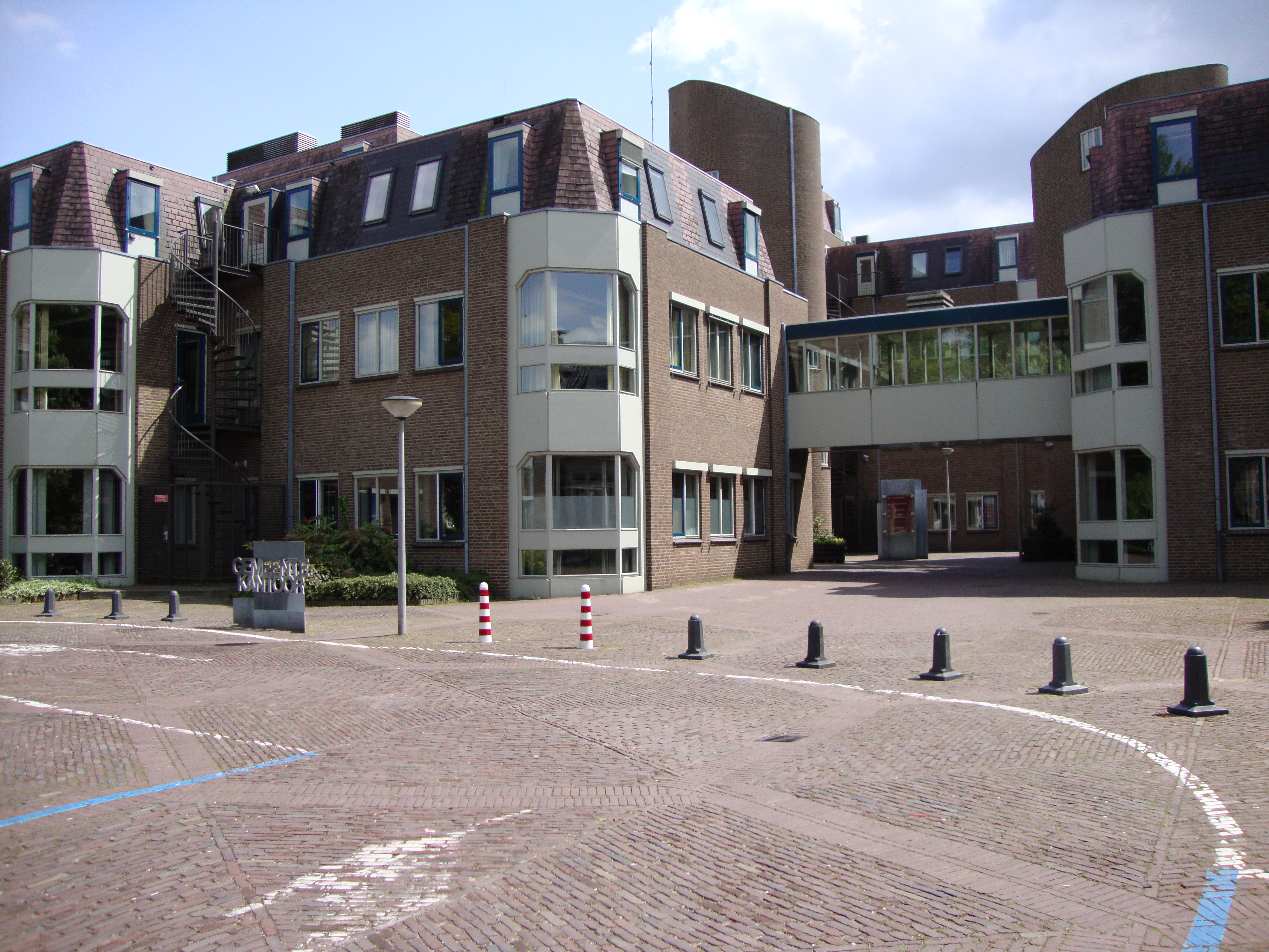 Wijchen (Gld, NL) town hall.